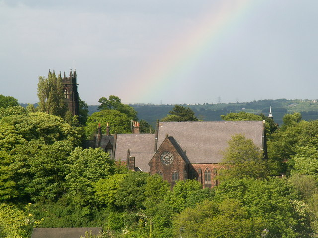 St Peter's church Woolton. St Peter's church tower where a certain Eleanor Rigby's headstone can be found.